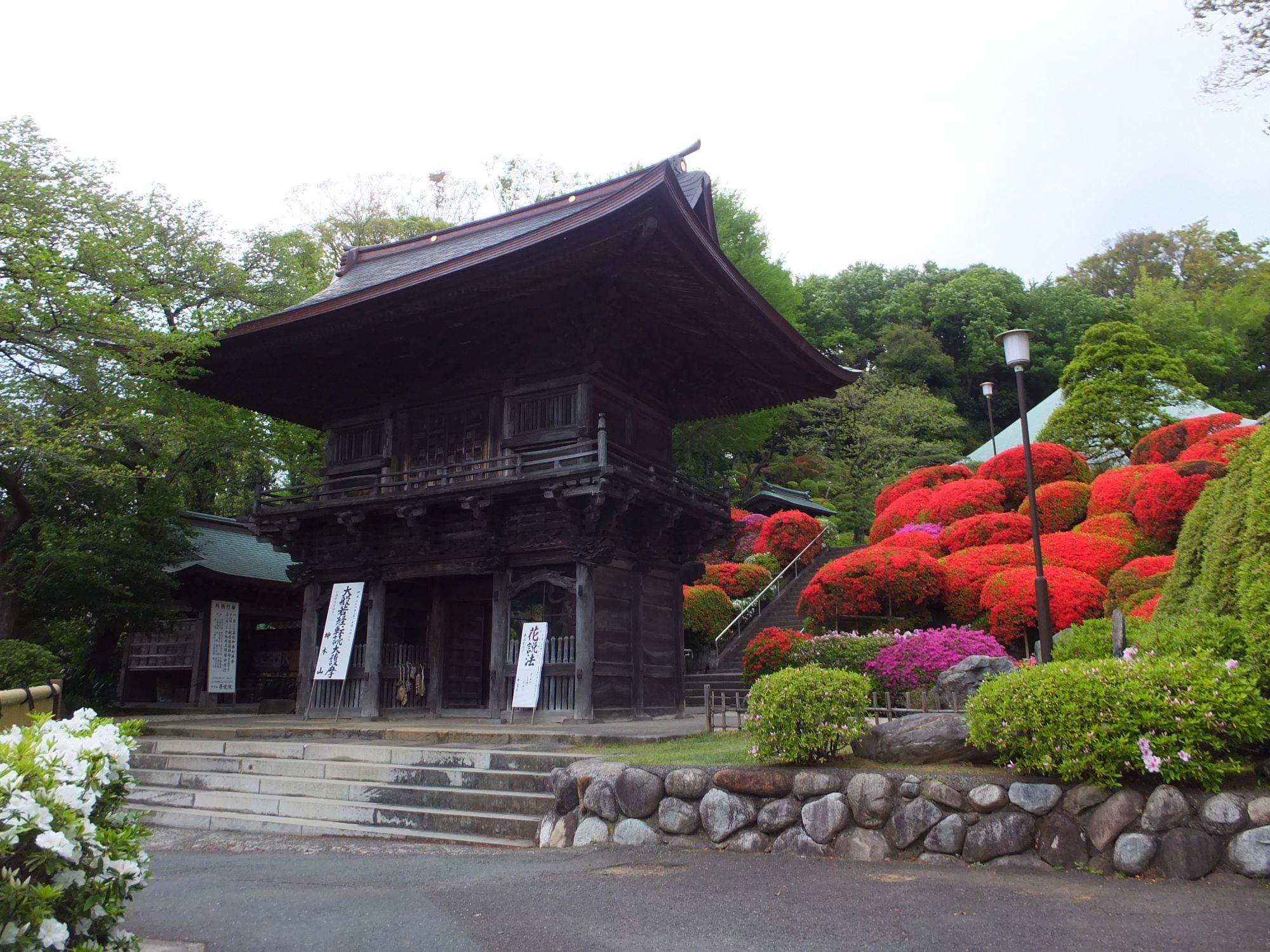 Sanmon gate of Tōgaku-in temple in Kawasaki, Kanagawa Prefecture